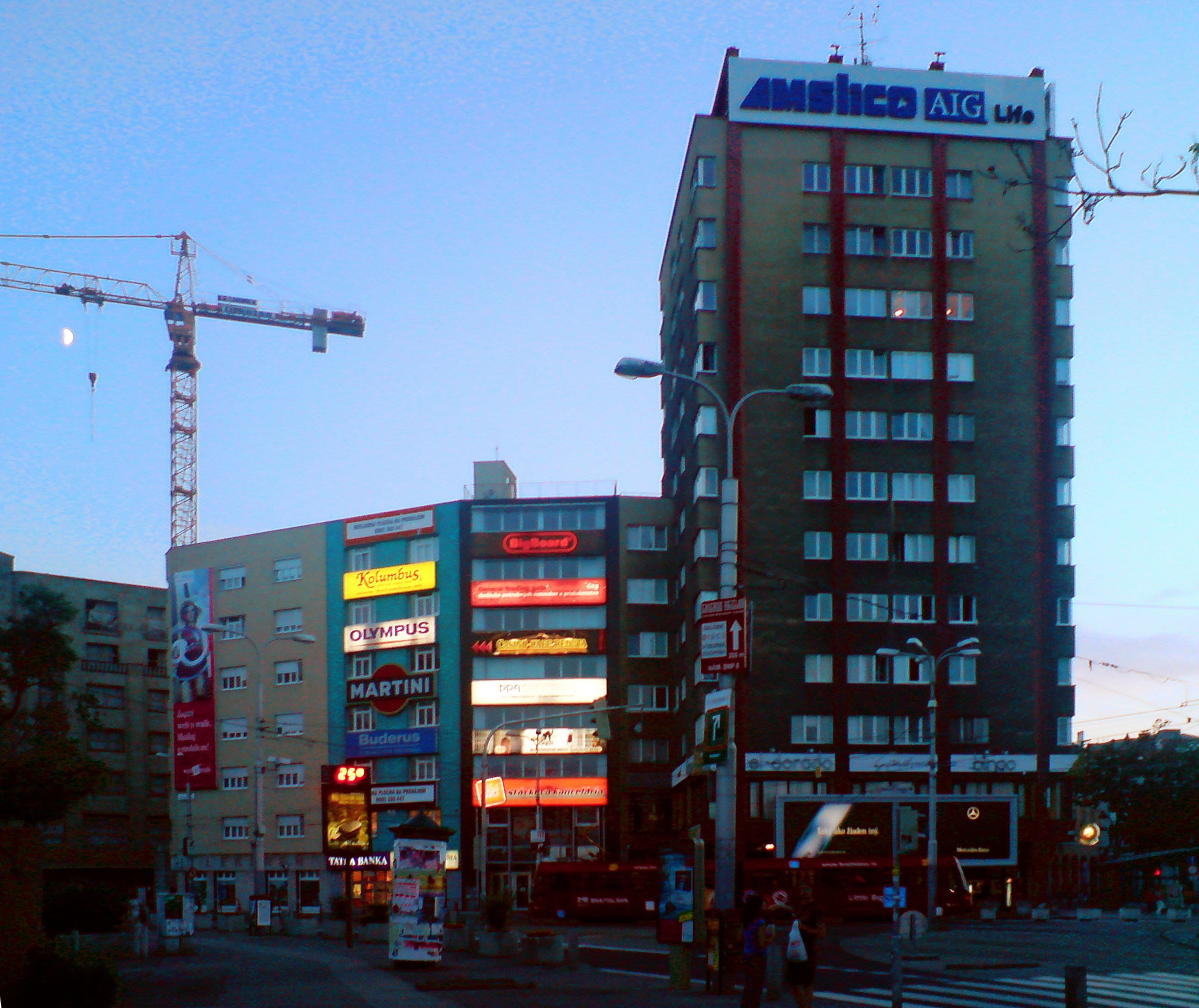 Manderla high-rise, Kamenné námestie, Bratislava, Slovakia